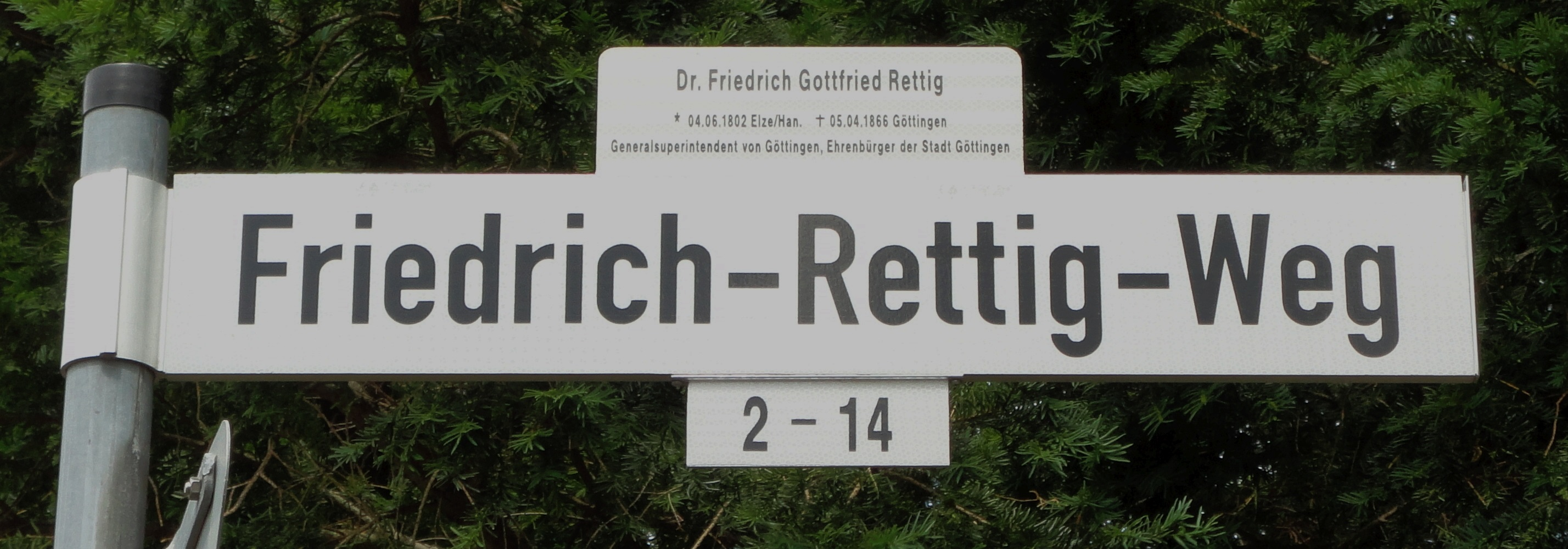 Göttingen-Weende, road sign Friedrich-Rettig-Weg